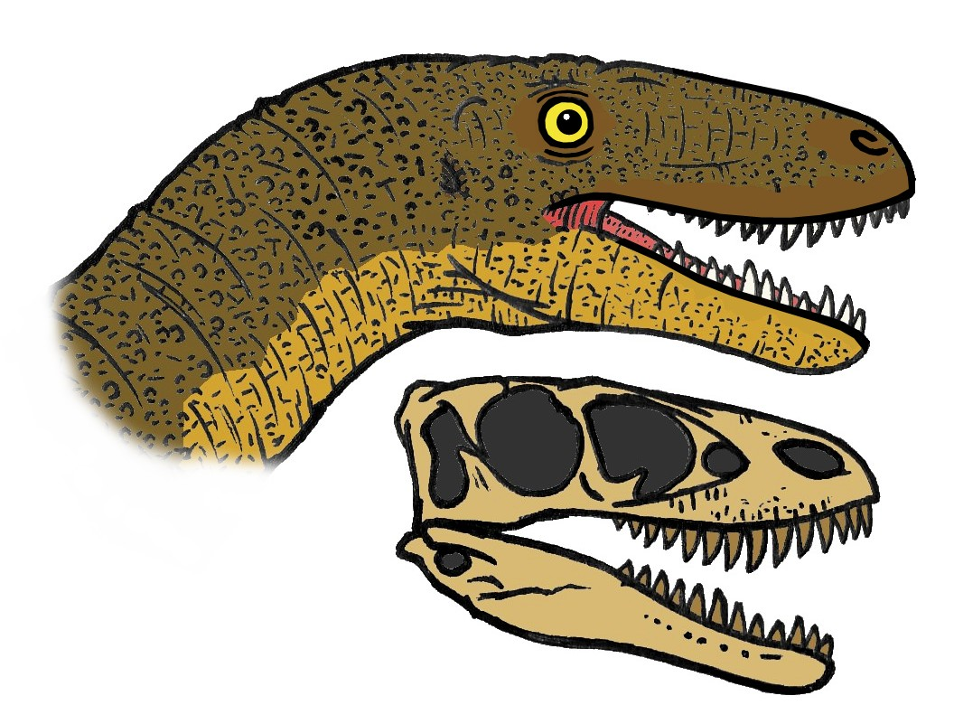 Illustration of Raptorex kriegsteini skull, and reconstruktion with flesh above.